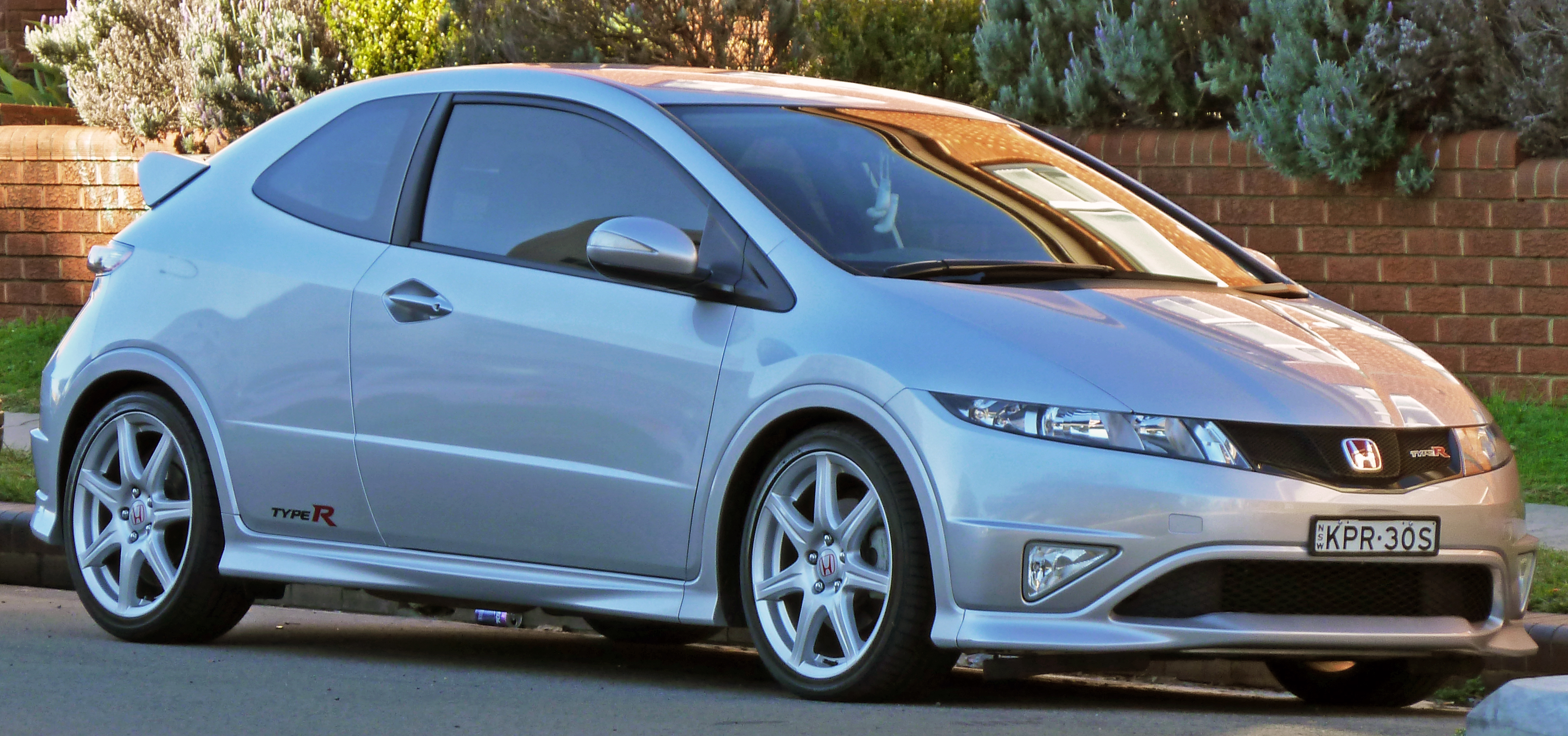 2007–2010 Honda Civic Type R 3-door hatchback. Photographed in Cronulla, New South Wales, Australia.